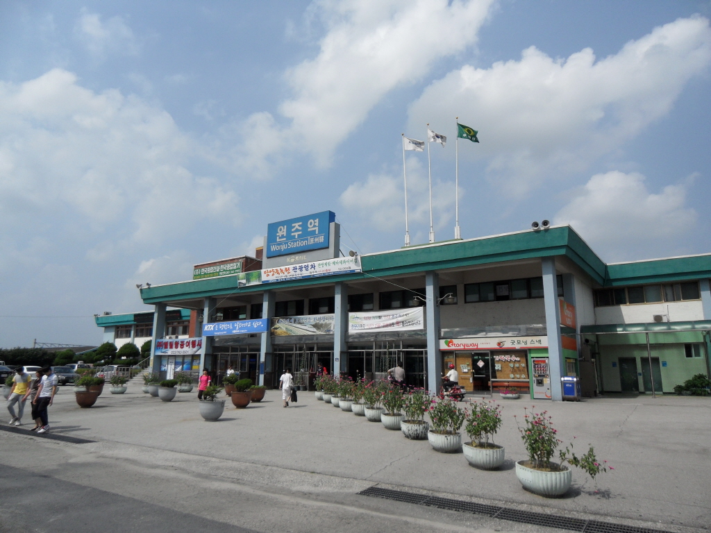 Korail Wonju Station